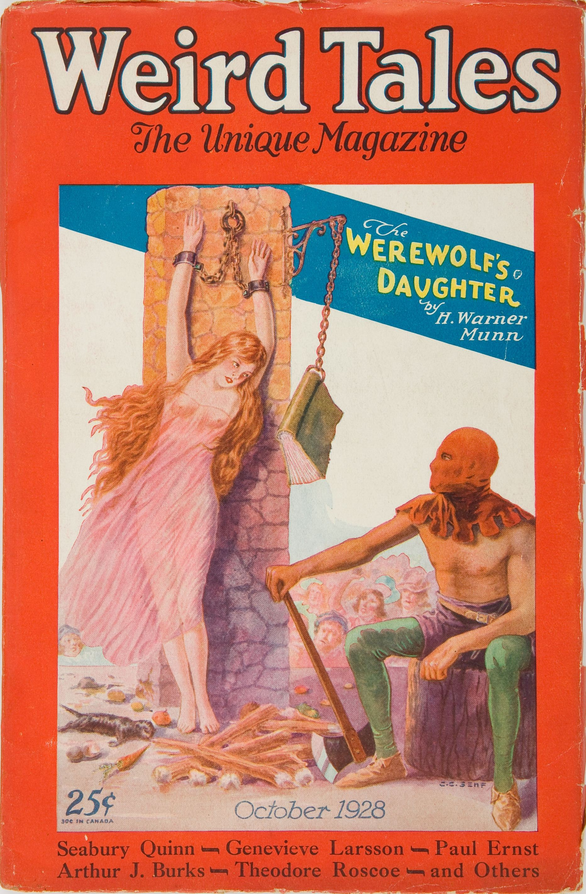 Cover of the pulp magazine Weird Tales (Oct 1928, vol. 12, no. 4) featuring The Werewolf's Daughter by H. Warner Munn. Cover art by C.C. Senf.